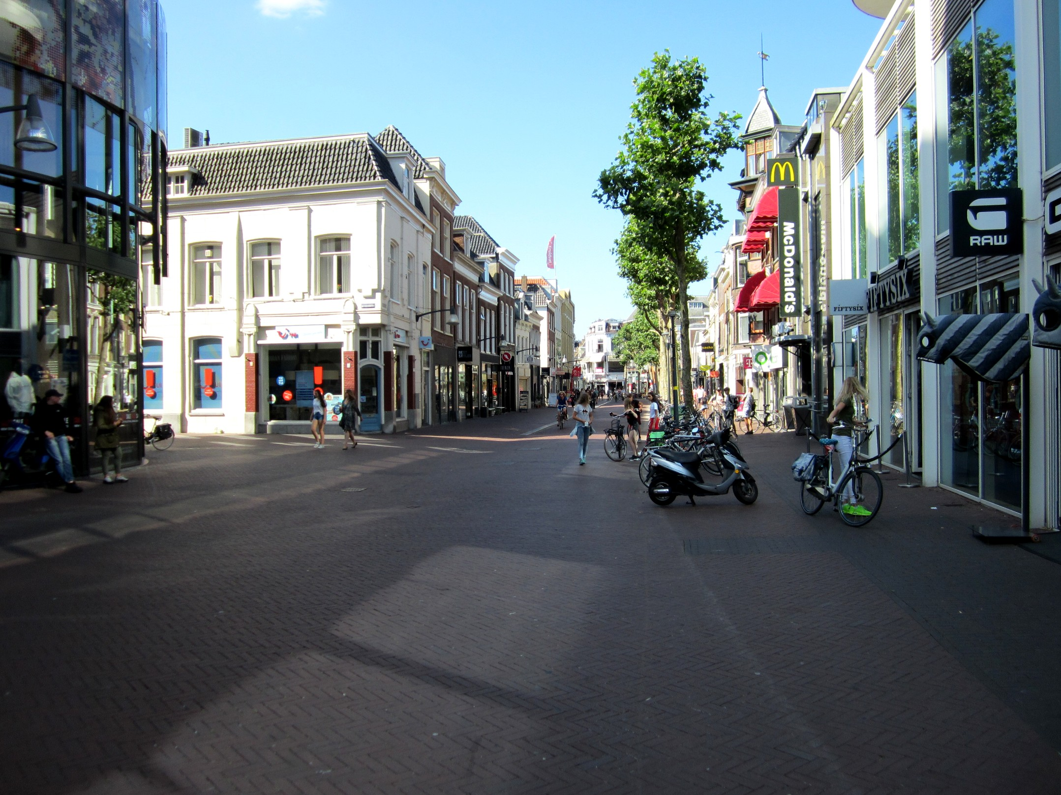 Wirdumerdijk (Frisian: Wurdumerdyk) an important shopping street in Leeuwarden/Ljouwert, Friesland, the Netherlands. The photographer stands with his right side to the Amacitia building (not in the photograph). The black building on the left edge of the photograph is the back of the Frisian Museum. In front of the white building in the middle is the eastern terminus of Ruiterskwartier street.